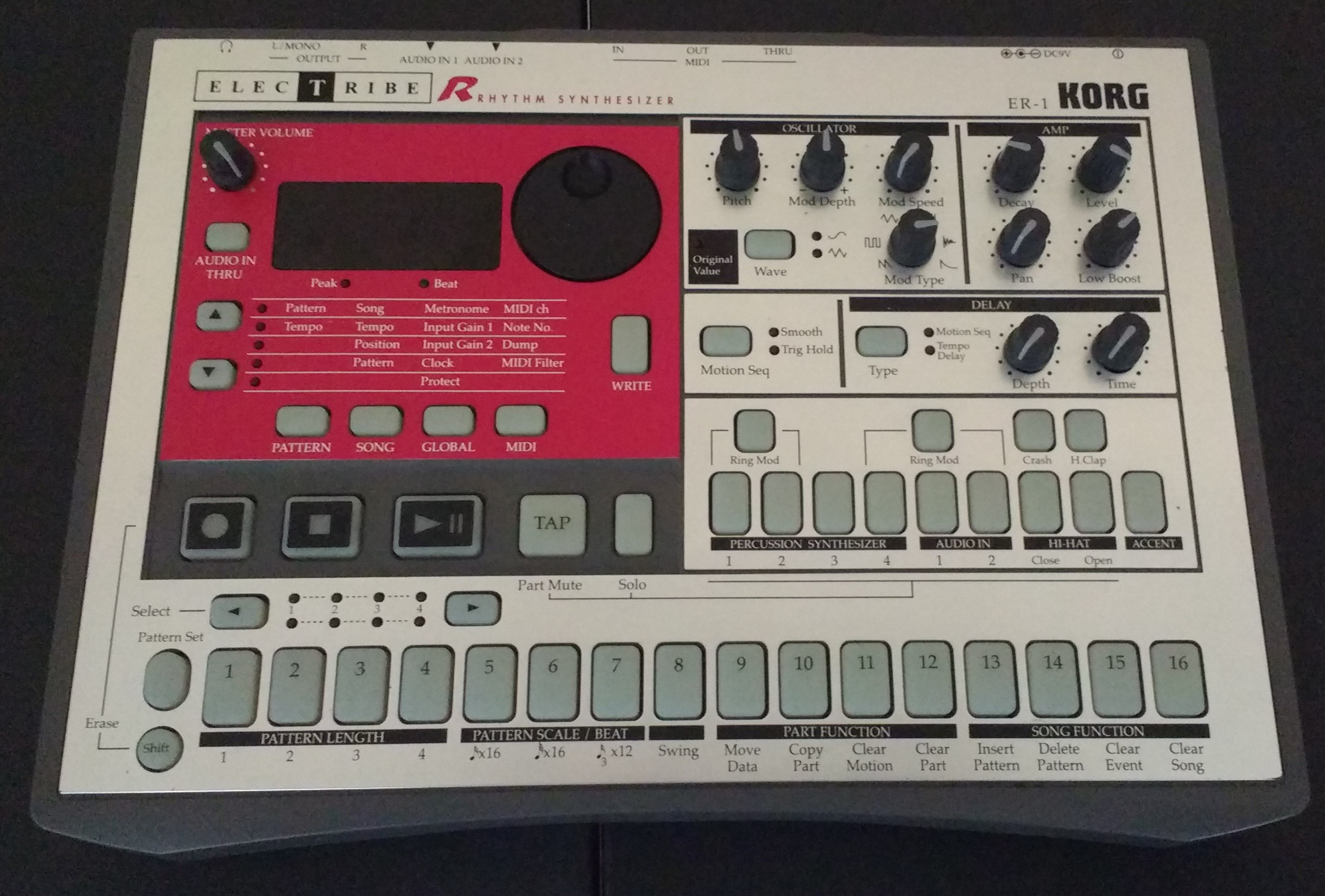 This is my Korg ER-1